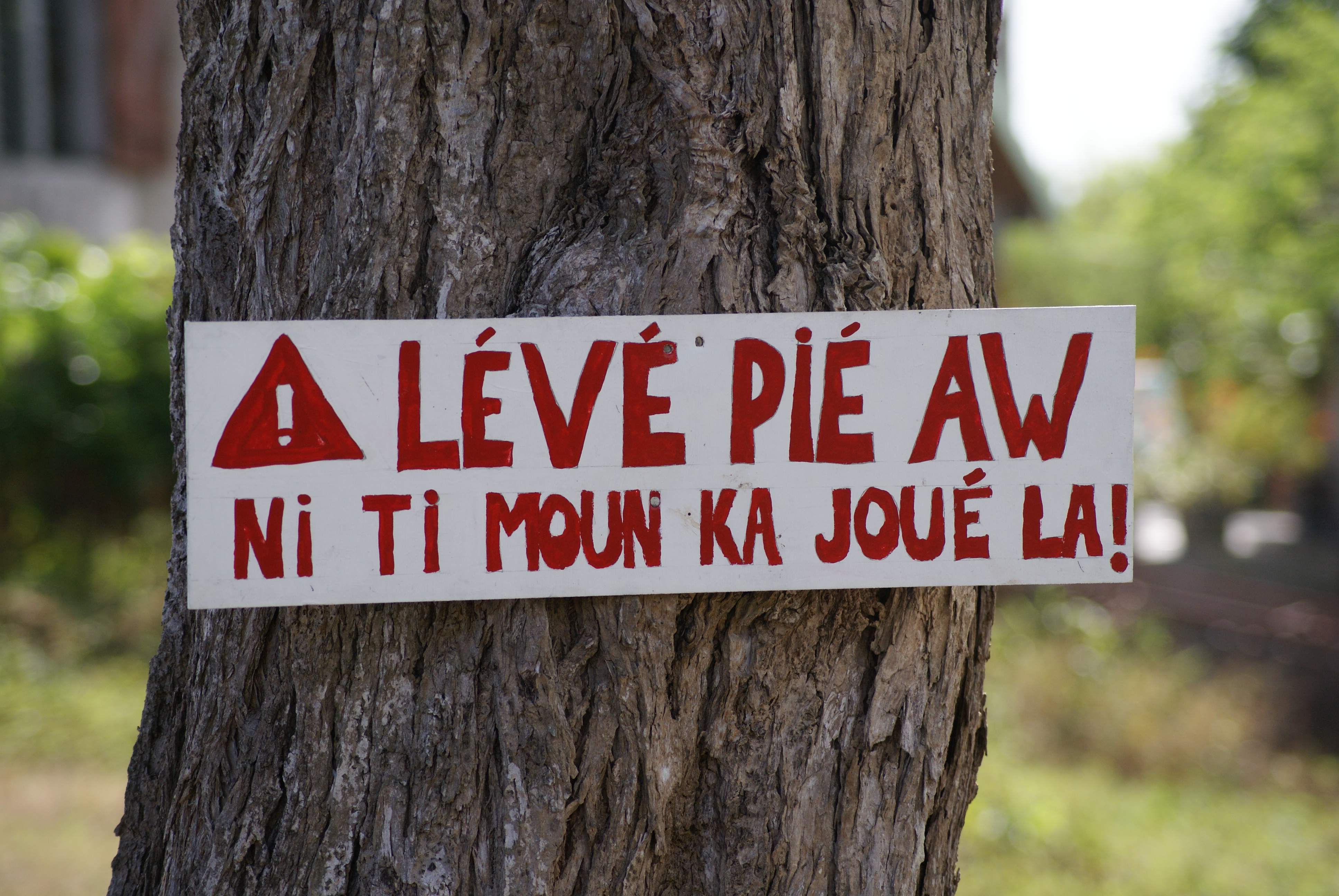 Sign in Guadeloupe creole on tree in a residental area (Lamarre, unincorporated) near Sainte Anne, Guadeloupe, France. Translation: "Lift [your] foot (i.e., slow down), children are playing here!".